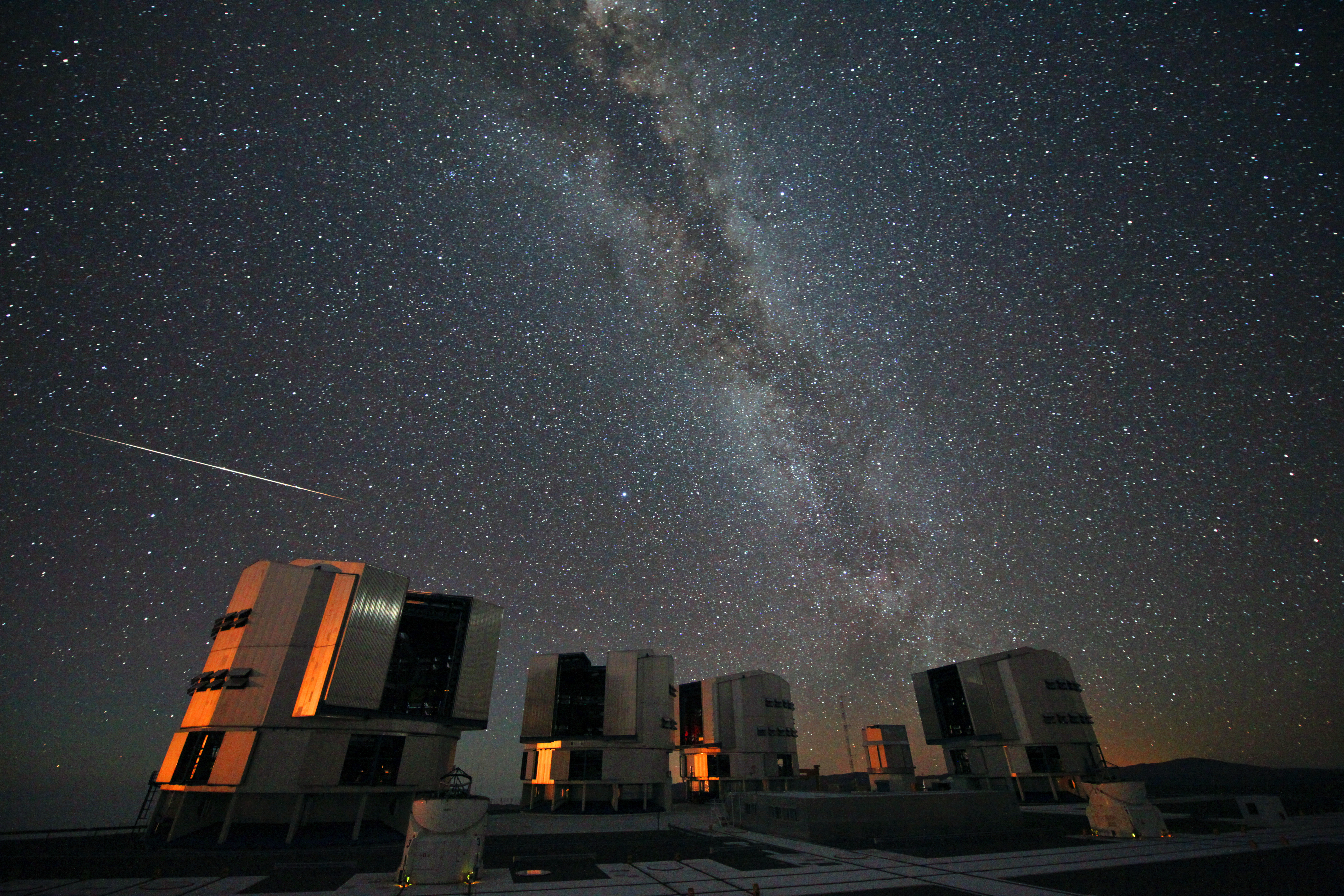 Every year in mid-August the Perseid meteor shower has its peak. Meteors, colloquially known as “shooting stars”, are caused by pieces of cosmic debris entering Earth’s atmosphere at high velocity, leaving a trail of glowing gases. Most of the particles that cause meteors are smaller than a grain of sand and usually disintegrate in the atmosphere, only rarely reaching the Earth’s surface as a meteorite. The Perseid shower takes place as the Earth moves through the stream of debris left behind by Comet Swift-Tuttle. In 2010 the peak was predicted to take place between 12–13 August 2010. Despite the Perseids being best visible in the northern hemisphere, due to the path of Comet Swift-Tuttle's orbit, the shower was also spotted from the exceptionally dark skies over ESO’s Paranal Observatory in Chile. In order not to miss any meteors in the display, ESO Photo Ambassador Stéphane Guisard set up 3 cameras to take continuous time-lapse pictures on the platform of the Very Large Telescope during the nights of 12–13 and 13–14 August 2010. This handpicked photograph, from the night of 13–14 August, was one of Guisard’s 8000 individual exposures and shows one of the brightest meteors captured. The scene is lit by the reddened light of the setting Moon outside the left of the frame.